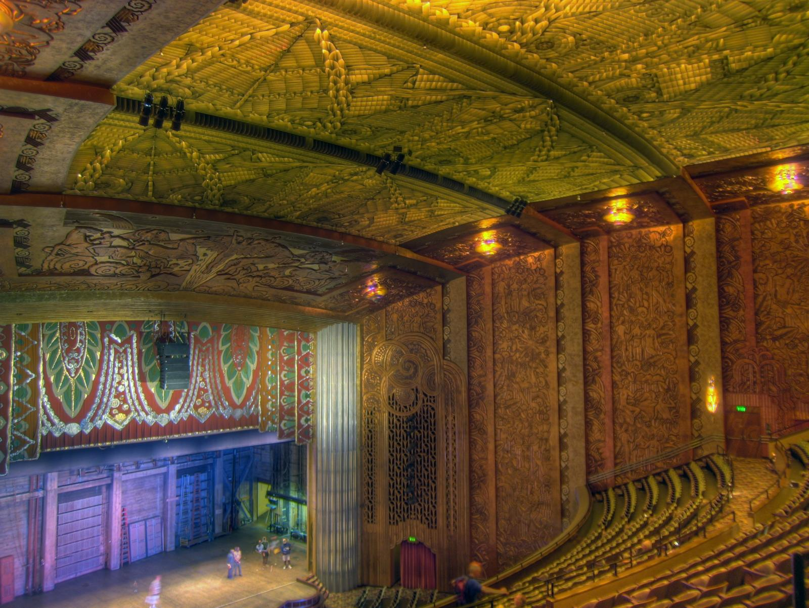 Paramount Theatre, Broadway, Oakland, CA, interior view towards stage, from left side; HSA Conclave 2008